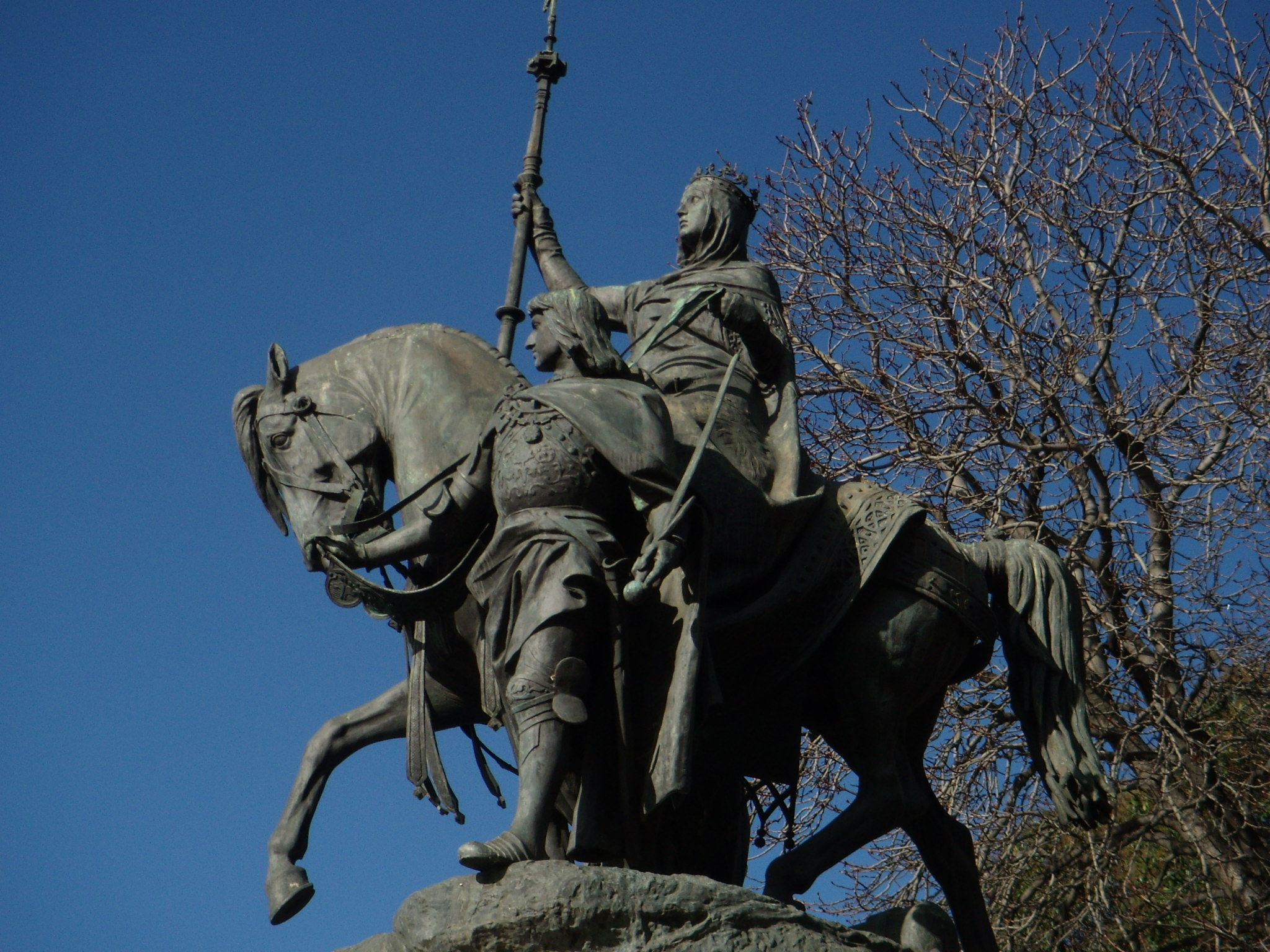 Monument to Isabella of Castile (1451–1504). Erected in Madrid (Spain) in 1883. Made of bronze by Manuel Oms Canet (Barcelona 1843–1886). The riding Queen is guided by Gonzalo de Córdoba